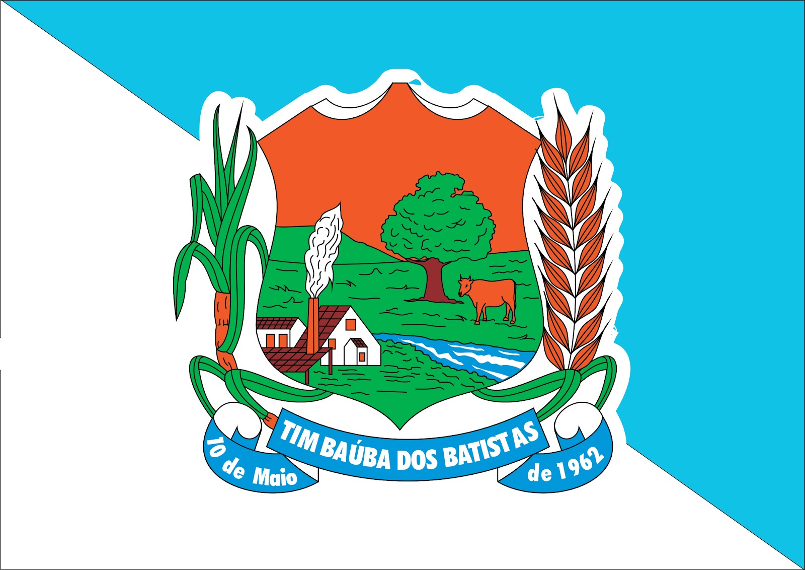 Flag from Timbaúba dos Batistas/RN, Brazil.